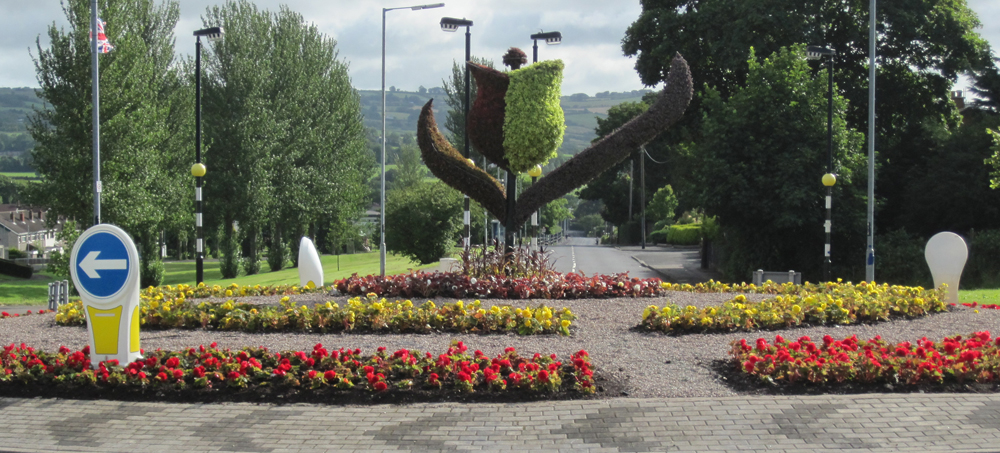 Photograph of the roundabout at the junction of Carnmoney Road/Manse Road/Beverley Road in the borough of Newtownabbey. The floral sculpture in the centre is a 3D representation of Newtownabbey Borough Council's corporate logo and was designed to celebrate the council's 50th anniversary.